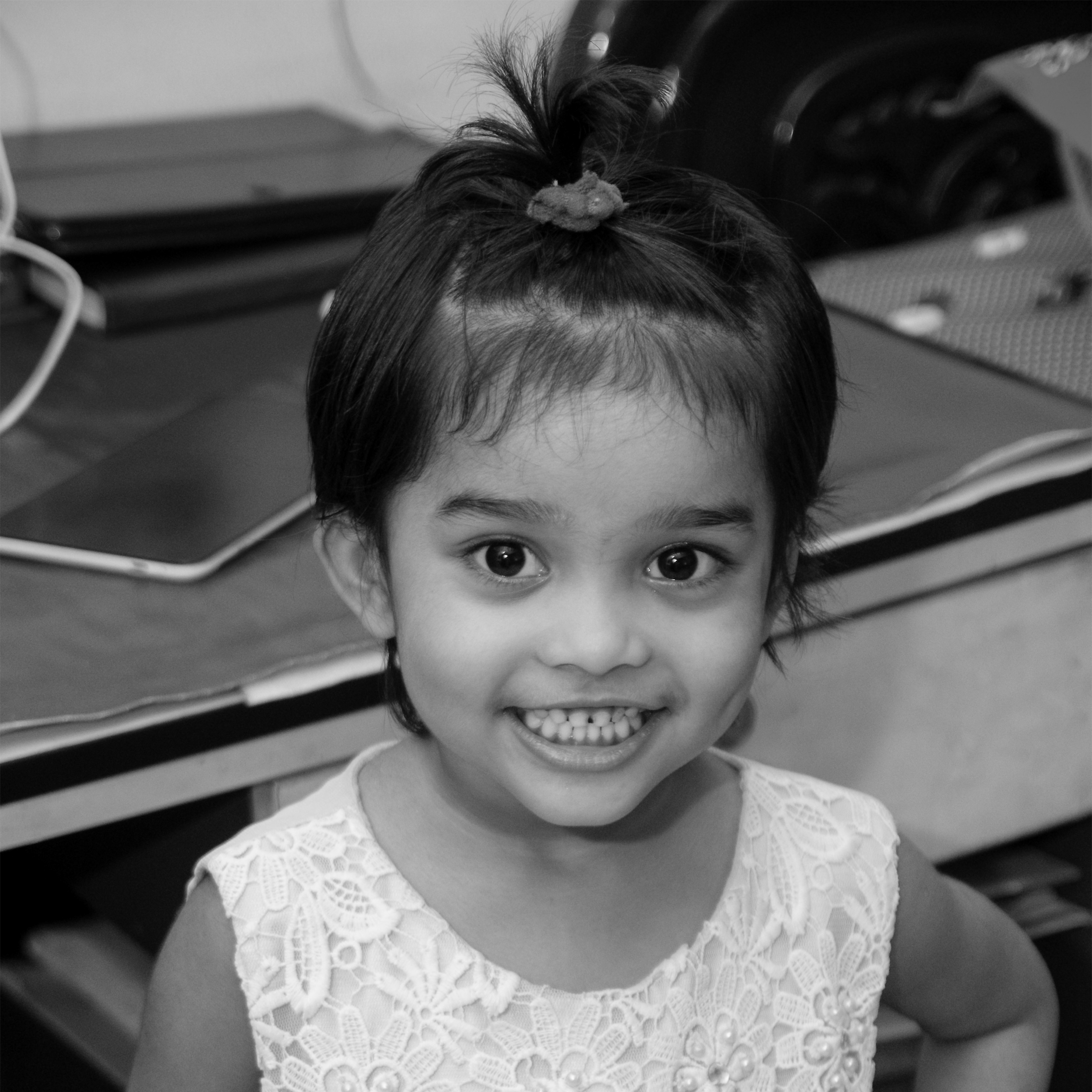 Four years old girl smiling, Chittagong, Bangladeshi.